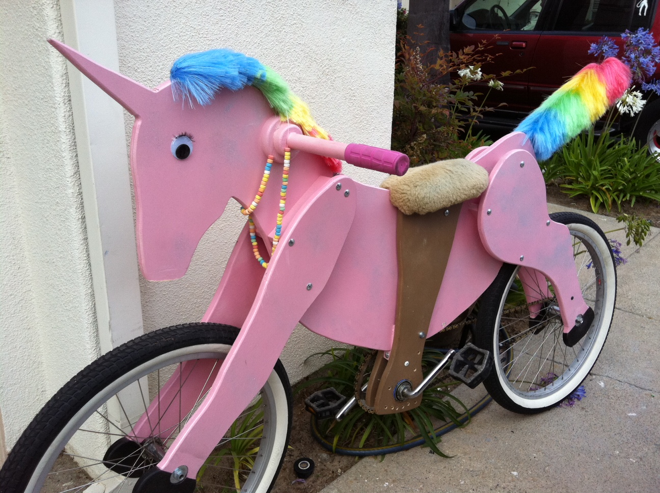 Pearl, with her good friend Charlie the Unicorn Bike, prance around town on many adventures.